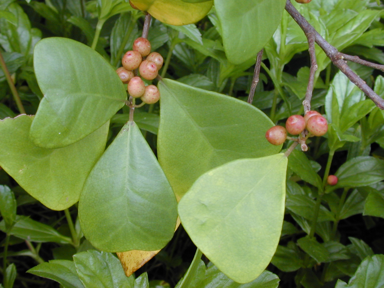 Leaves and figs of a Sweetheart tree at Sleeping Giant mountain, Kauai, Hawaii.Note: This is not Ficus deltoidea, as can be seen from the leaf venation.